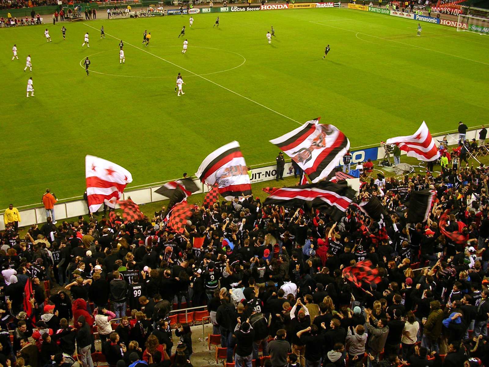 La Barra Brava, a D.C. United fan association, support the team against the Chicago Fire at RFK Stadium.